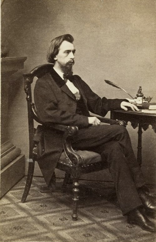 Image John George Nicolay cropped from a Carte-de-visite